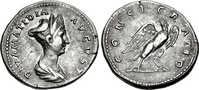 Diva Matidia. Died AD 119. AR Denarius (20mm, 3.34 g, 6h). Rome mint. Struck under Hadrian, circa AD 119. DIVA MATIDIA AUGUST. Draped bust right, wearing stephane CONSECRATIO Eagle standing right, head left, on scepter, with wings displayed. RIC II 752 (Trajan); Strack 139; RSC 2.